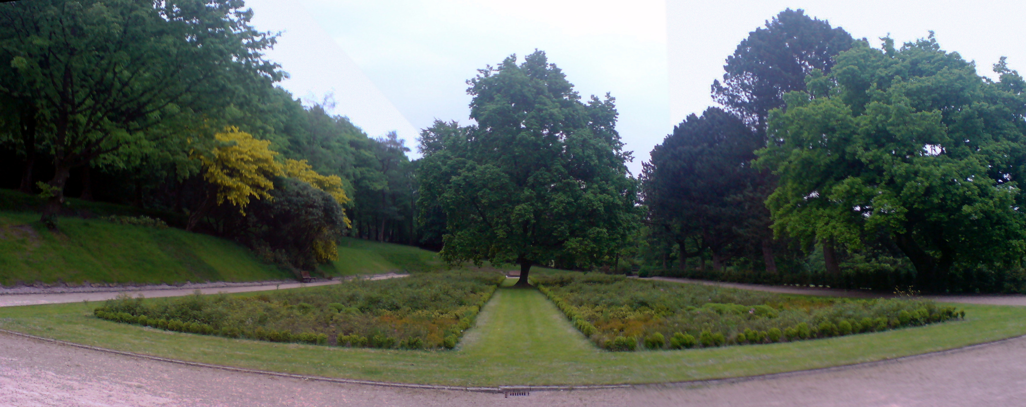 Italian Gardens in Corporation Park